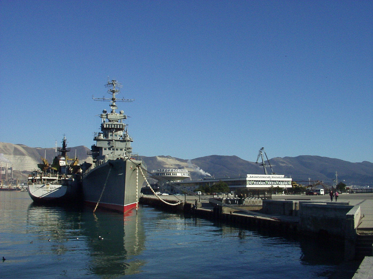 Kutuzov cruiser which is now museum (foreground) and the passenger terminal in Novorossiysk seaport